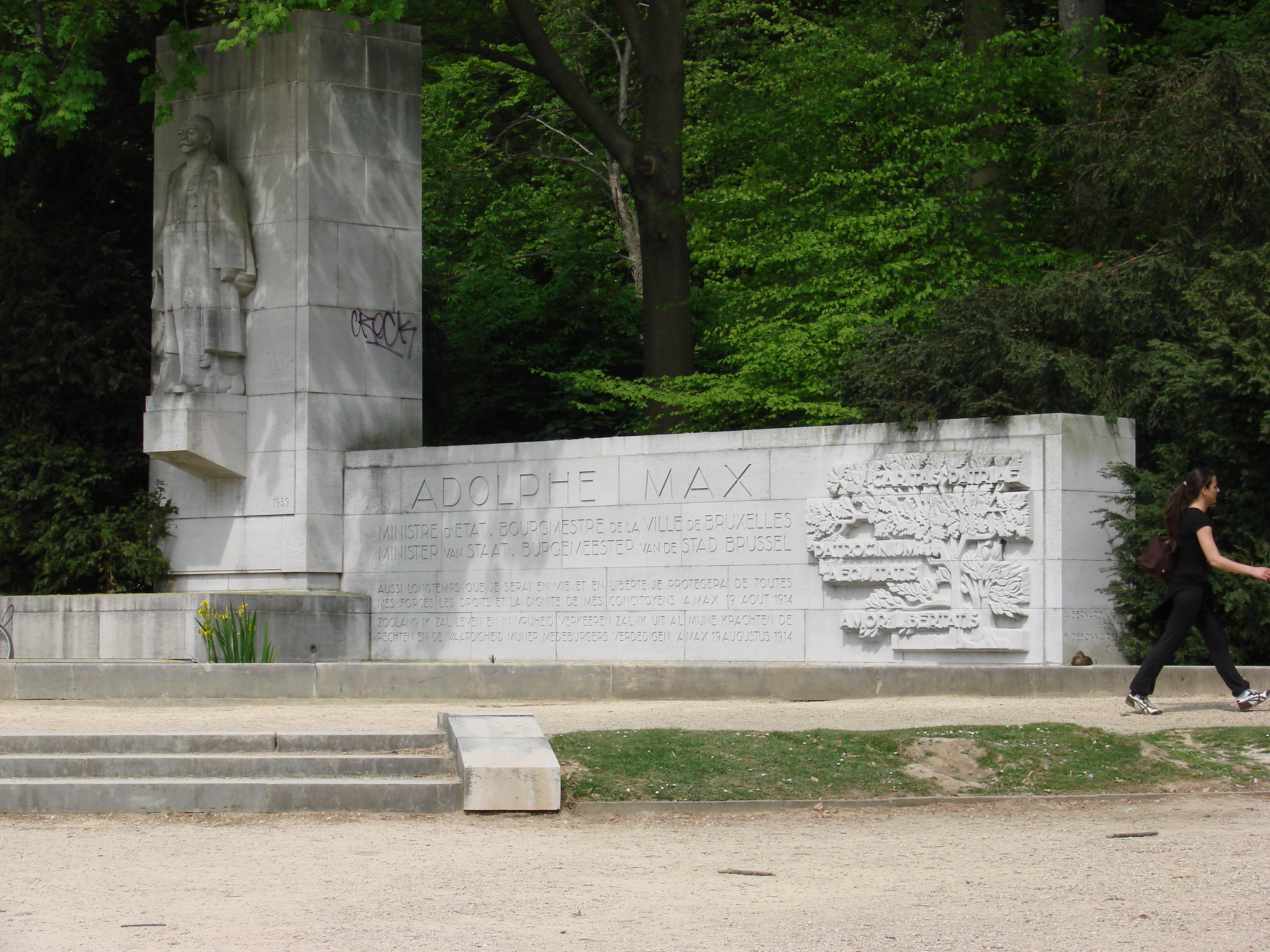 Adolphe Max